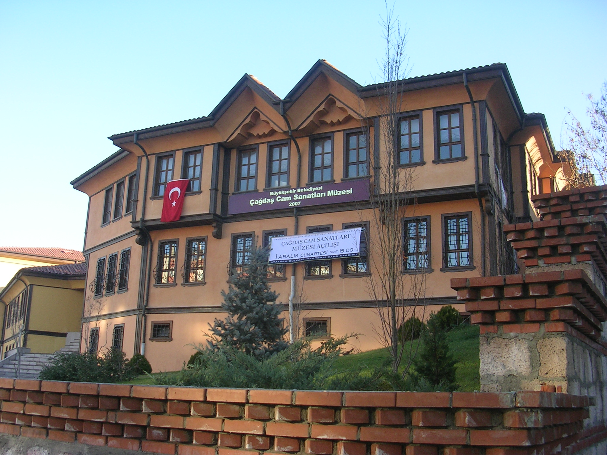 Museum of glassware arts.